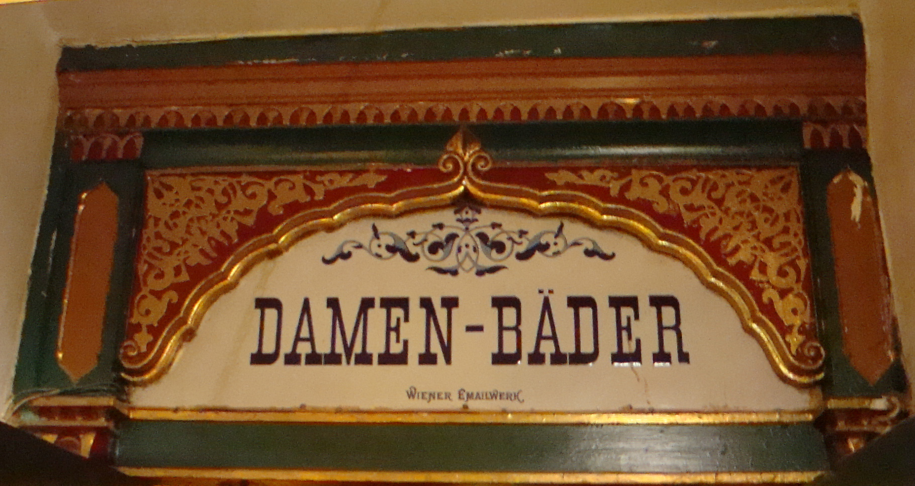 One part of the former Central-Bad Vienna